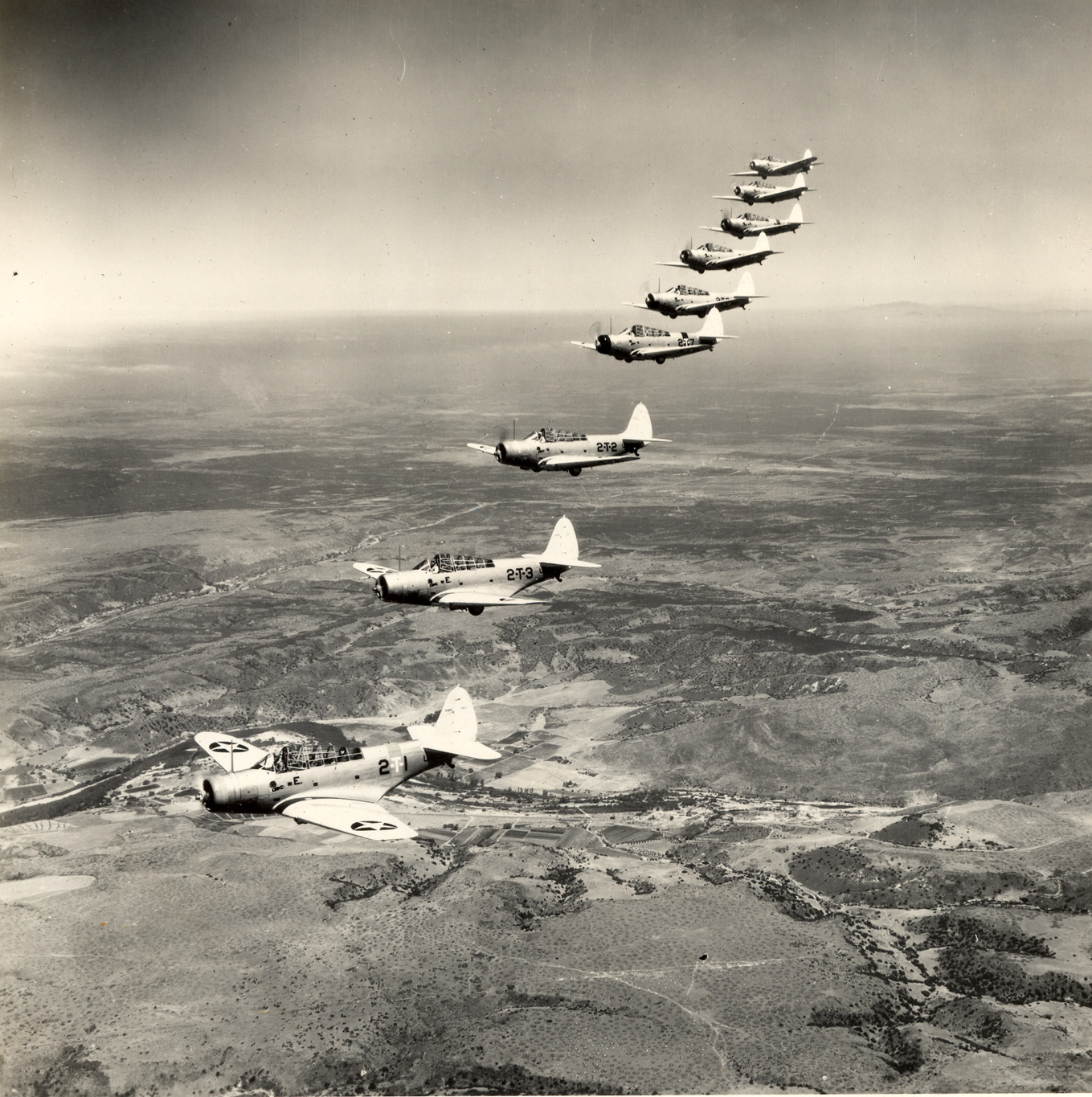 Nine U.S. Navy Douglas TBD-1 Devastators of Torpedo Squadron 2 (VT-2) in flight out of Naval Air Station Corpus Christi, Texas (USA), on 6 January 1941. VT-2 was assigned to the aircraft carrier USS Lexington (CV-2) flying TBDs from 1938 to her sinking on 8 May 1942.